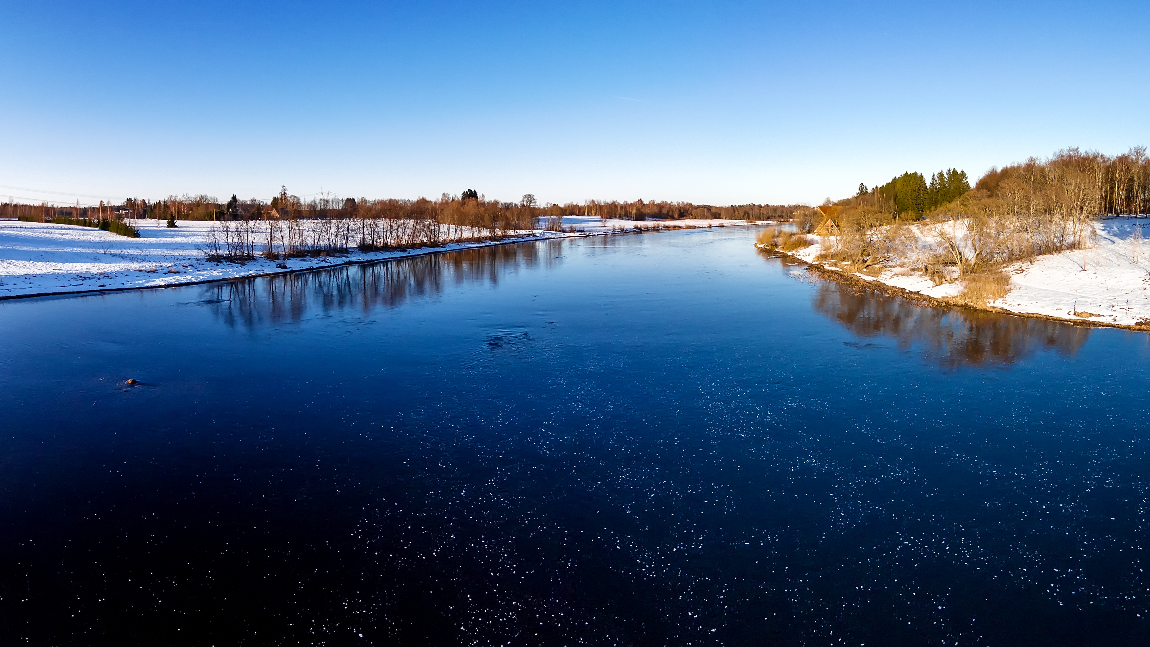 Pärnu river